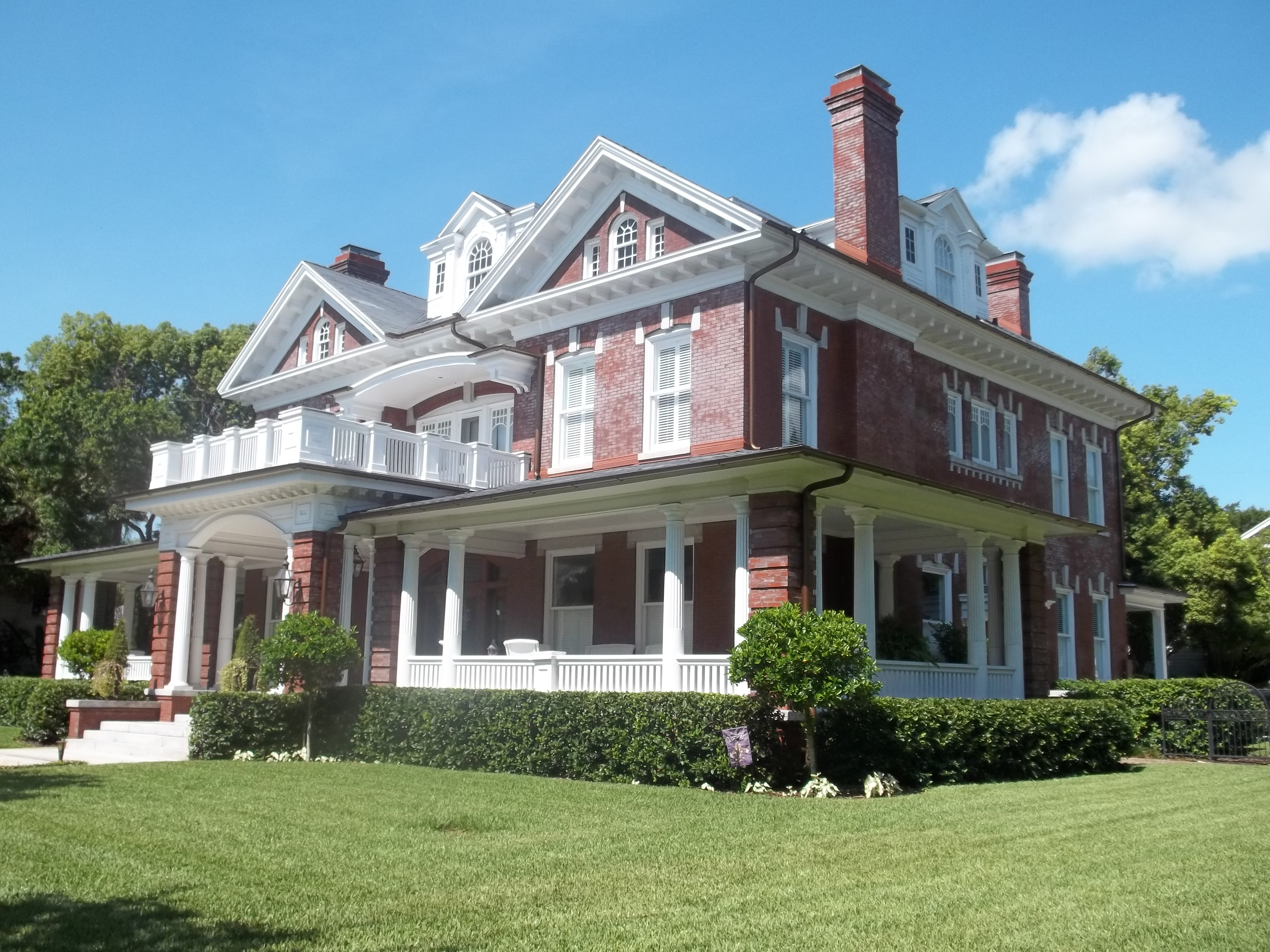 Tampa, Florida: Hyde Park Historic Districts